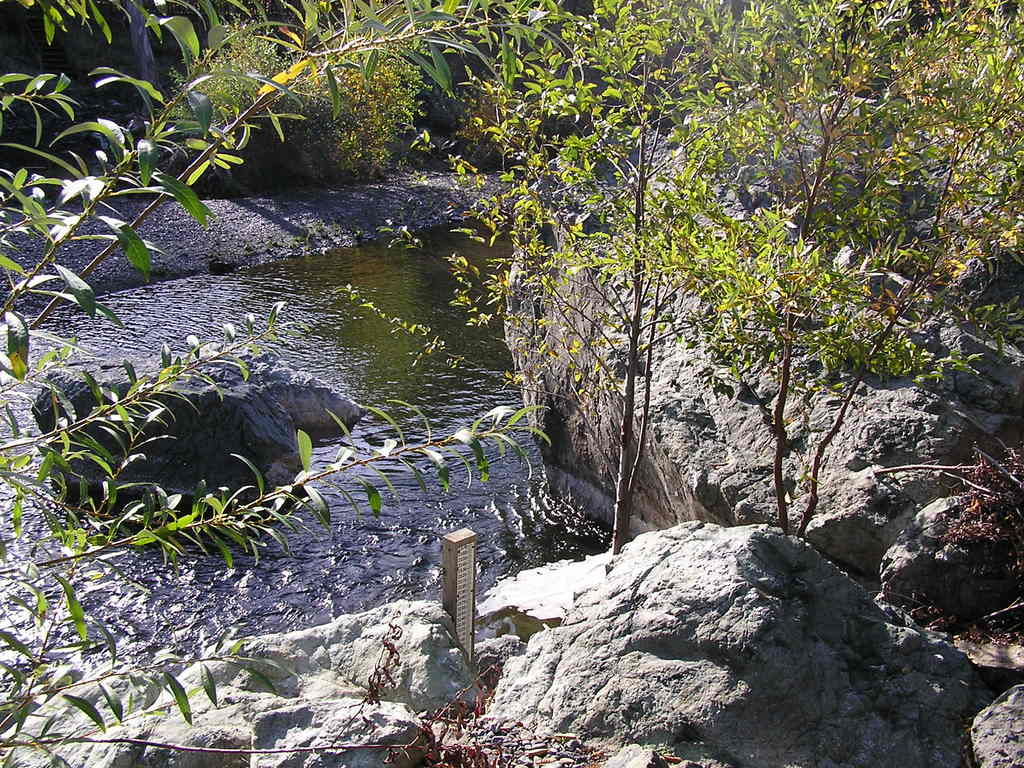 A United States Geological Survey water monitoring station at Big Sulphur Creek.